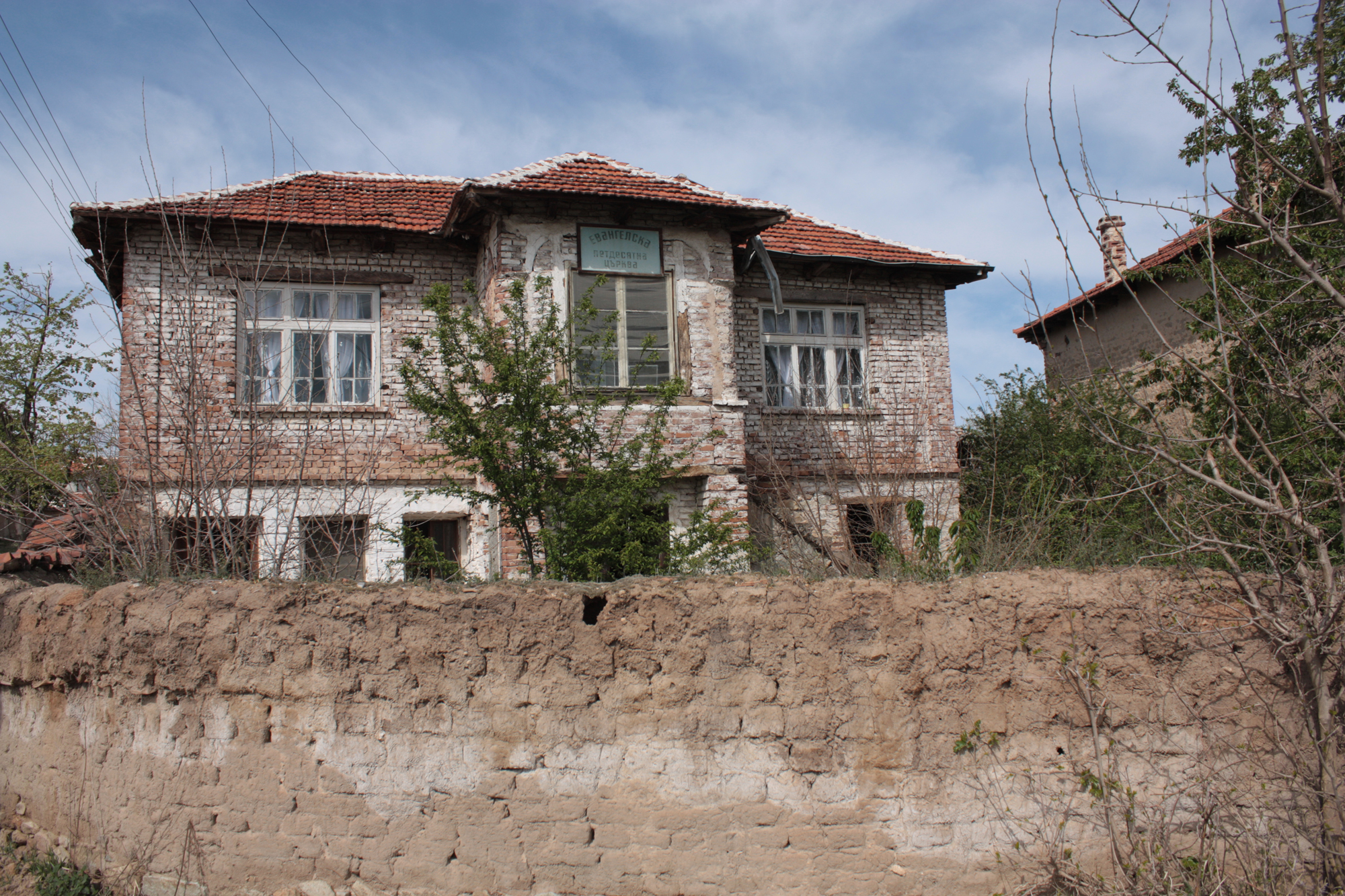 Evangelic Pentecostal Church in Apriltsi village, Bulgaria